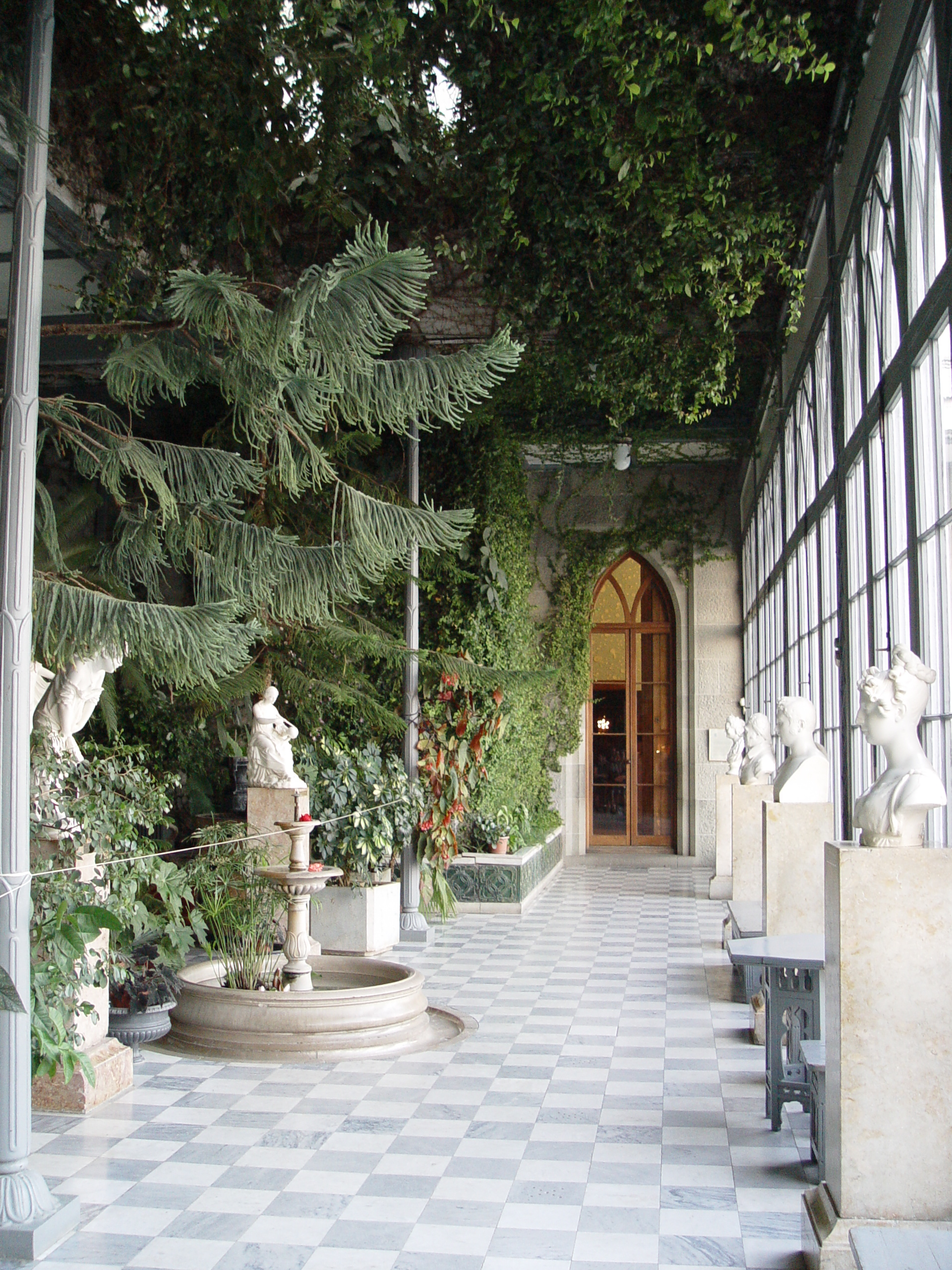 The Conservatory greenhouse at the Vorontsovsky Palace in Alupka, the Crimea, Ukraine.